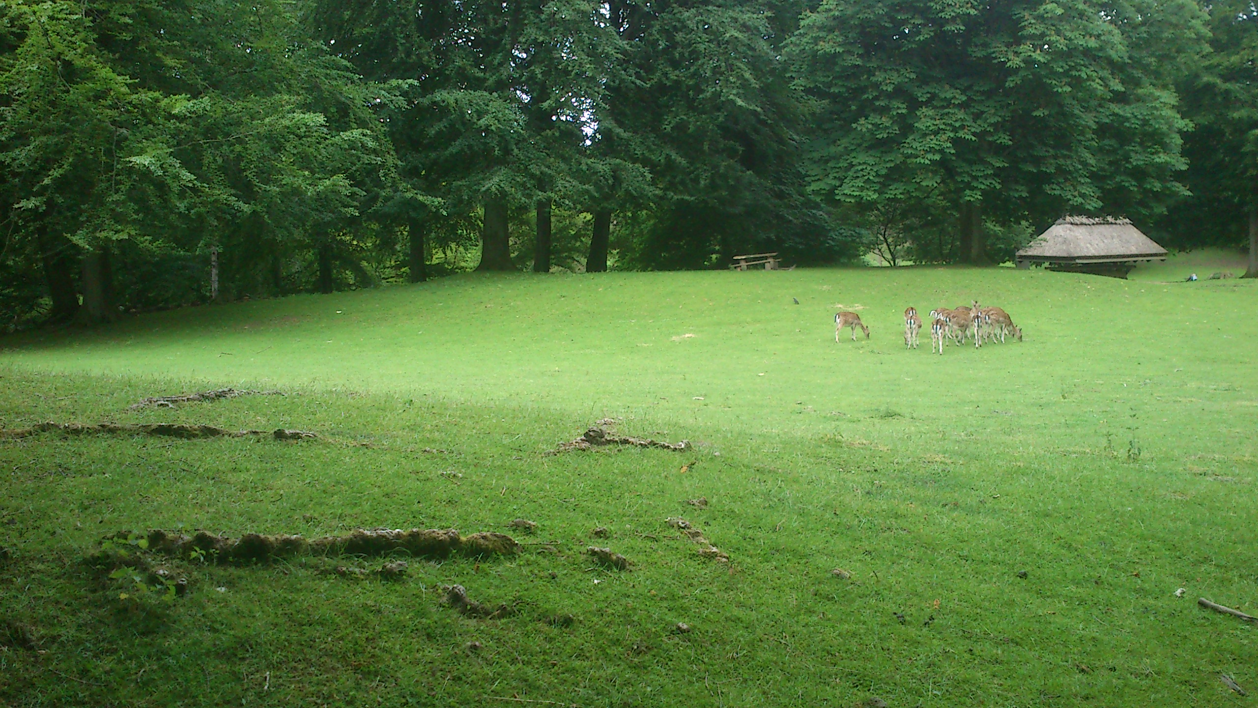 Roe deers in the Marselisborg Deer Park